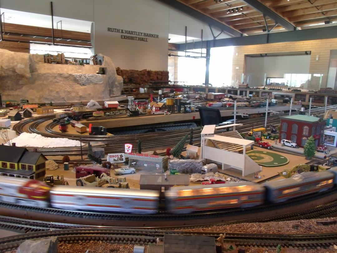 Scottdale Model Railroad Club O scale model train layout housed in the McCormick Ranch Bunkhouse in McCormick-Stillman Railroad Park. In 1967, the Fowler McCormick's donated 100 acres of McCormick Ranch to the City of Scottsdale stipulating that it be used as a public park for all to enjoy. The bunkhouse, dating before 1921, before the McCormick Ranch era, is the only structure left on the original ranch.